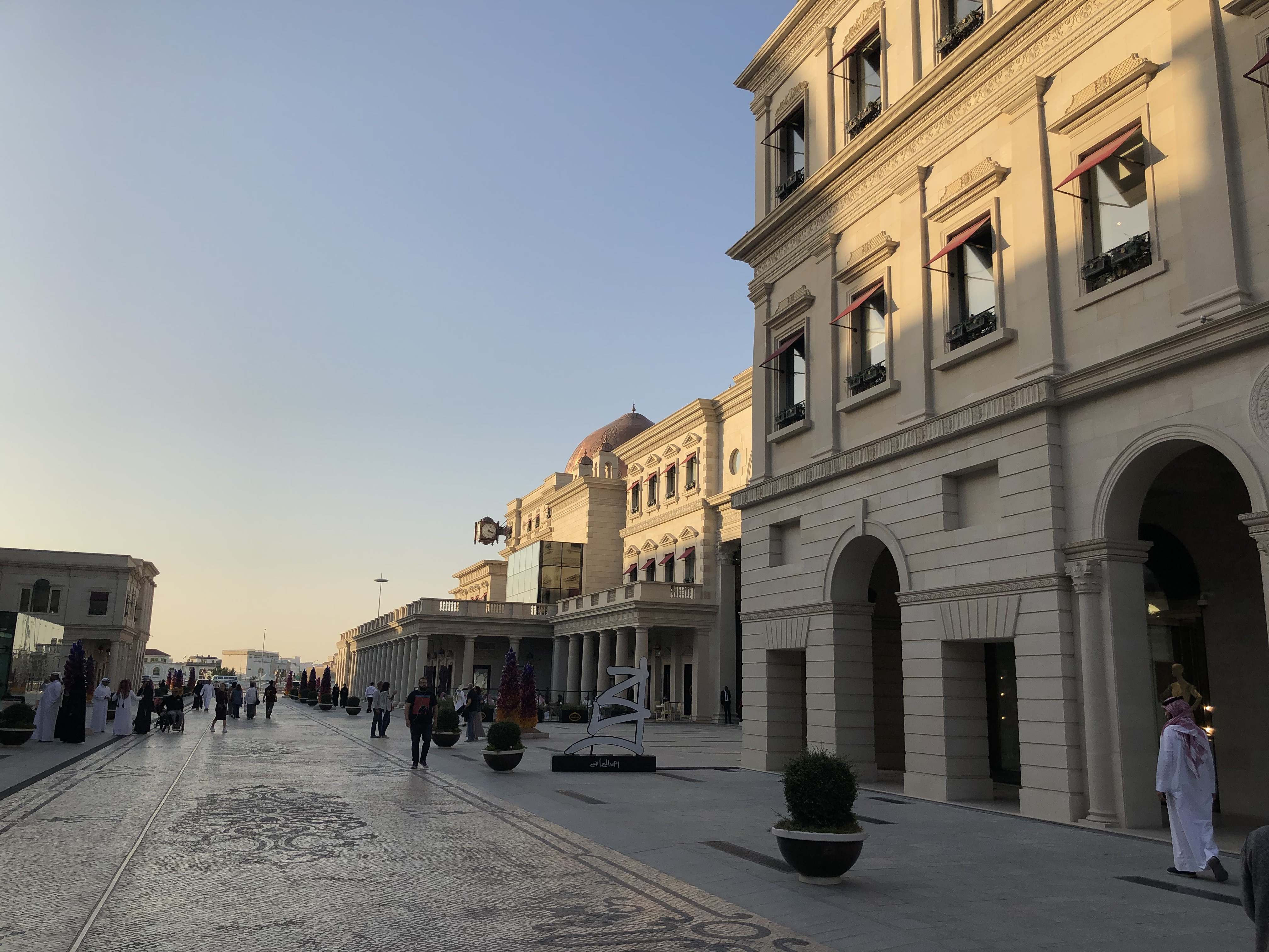 Katara village